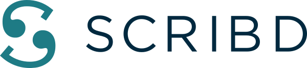 Logo of Scribd